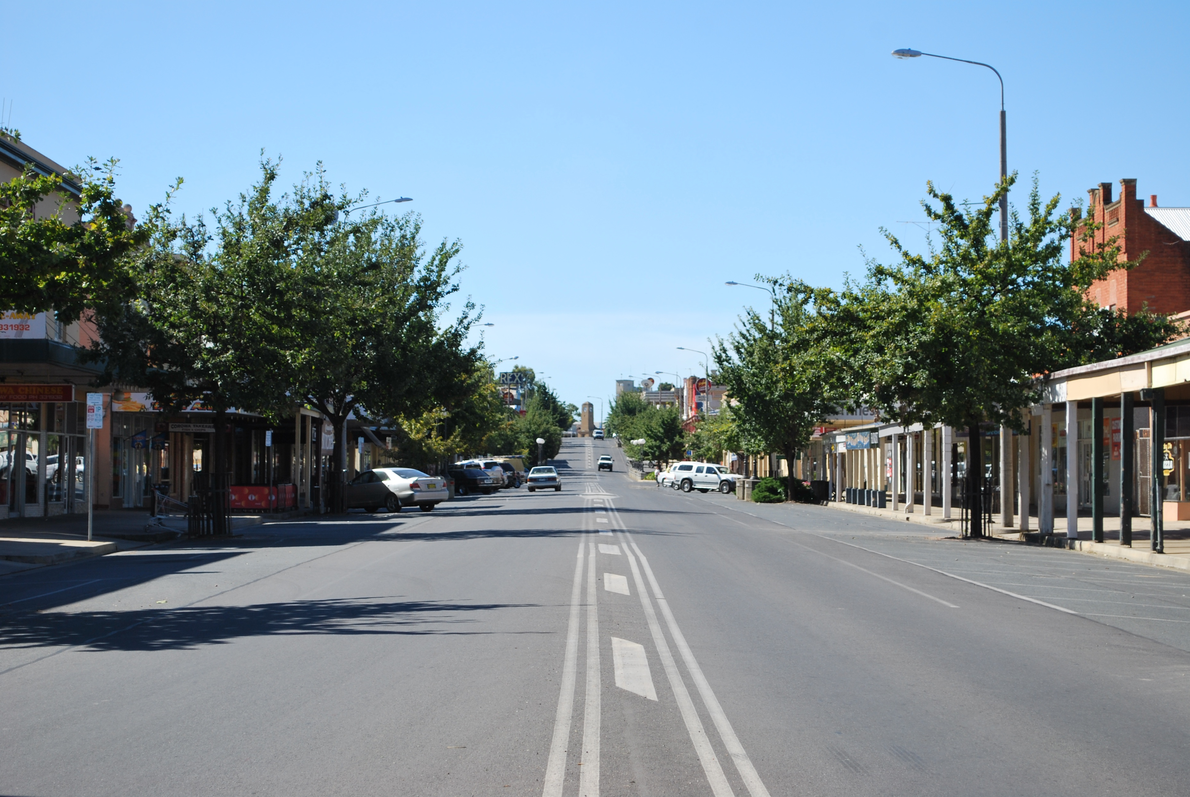 Sanger St, the main street of Corowa